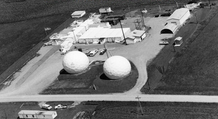 Photo of Bay Shore, Michigan USAF radar bomb scoring site-1970